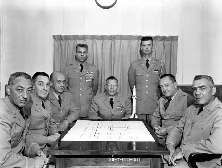 U.S. Army Major Genaral Holger N. Toftoy and his staff, 1956.